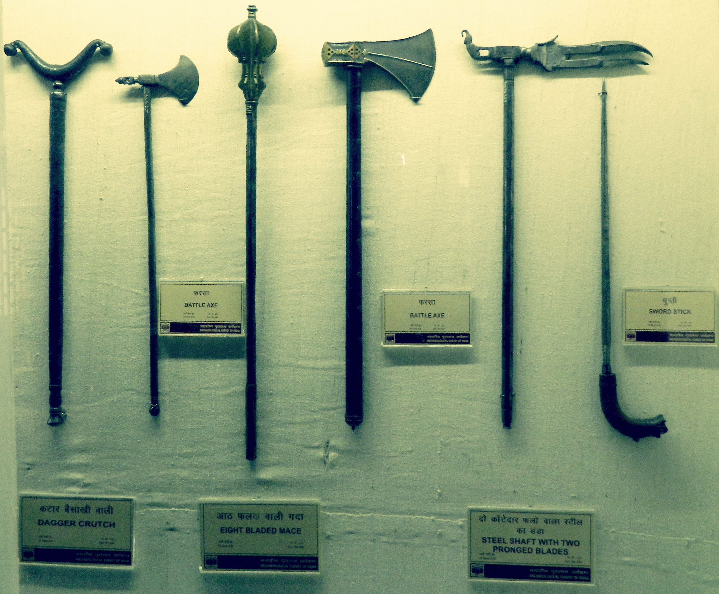 1. Fakir's crutch sword. 2.Tabar (axe). 3.Eight Bladed mace. 4.Tabar (axe). 5.Two pronged zaghnal (War hammer/axe). 6.Sword Stick. (cropped and edited from the original image).